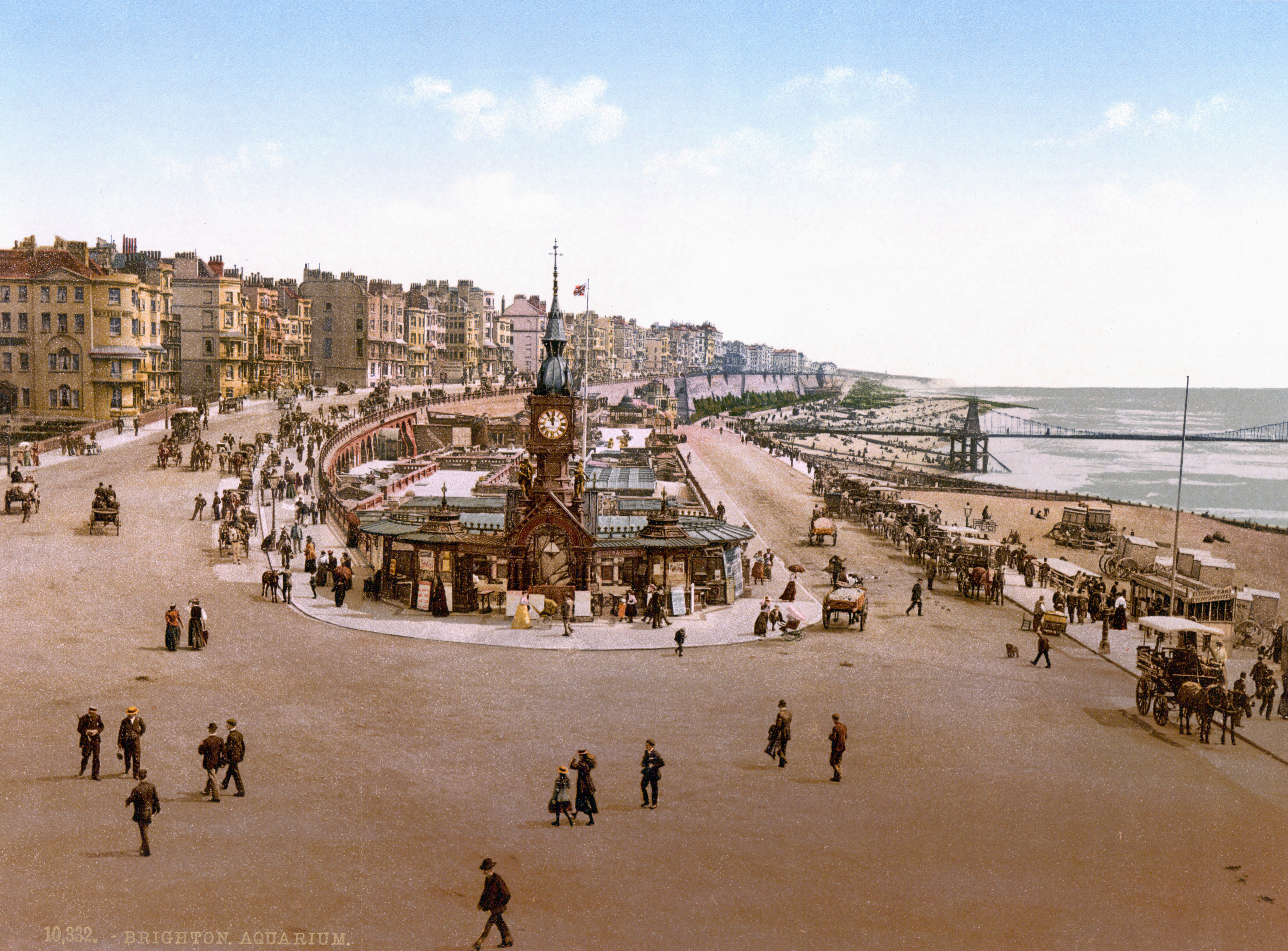 "Aquarium, Brighton, England" photochrom print